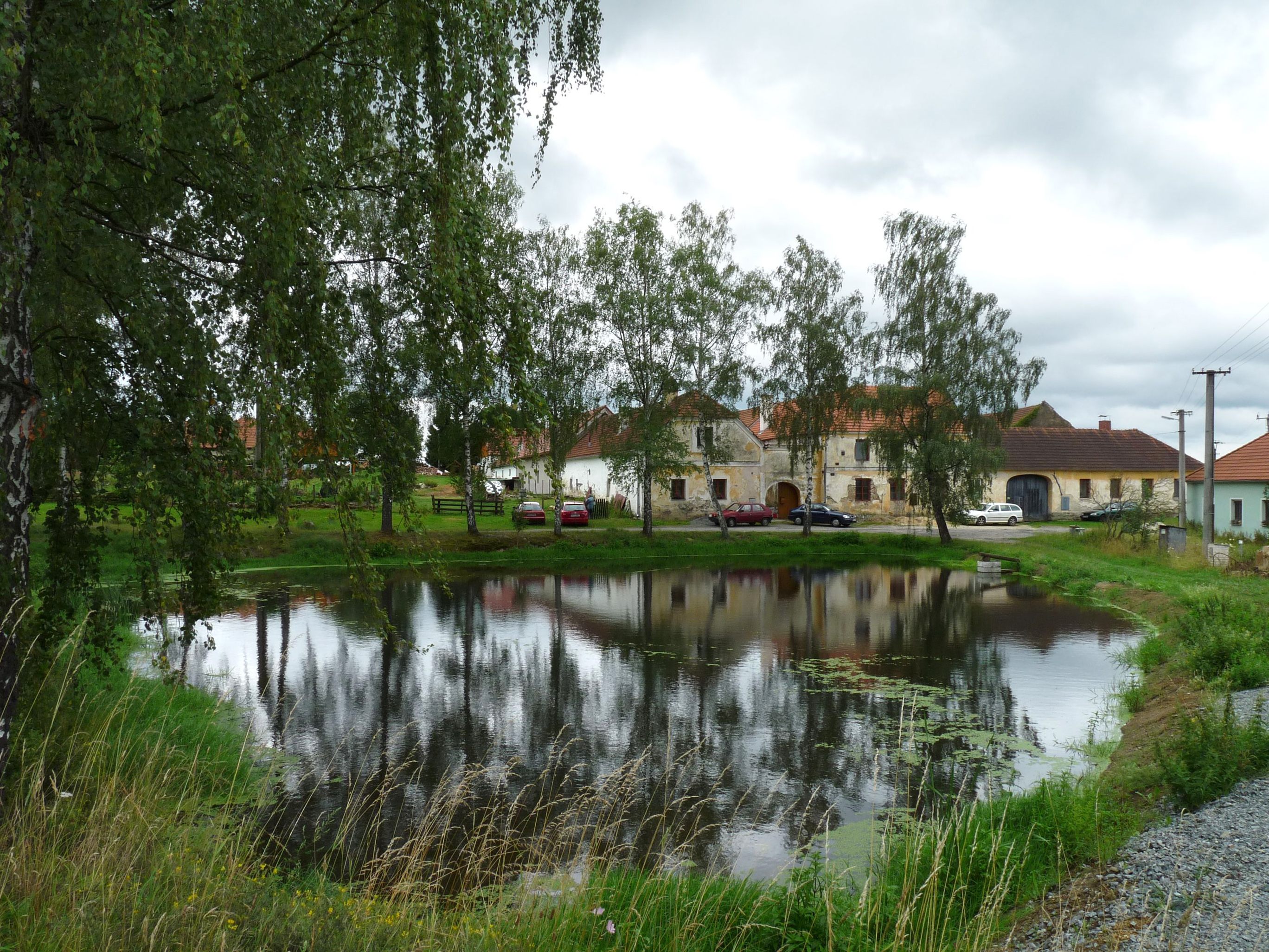 Pond in the village of Hradiště, Český Krumlov District, South Bohemian Region, Czech Republic, part of the town of Kaplice. Česky: Rybník ve vsi Hradiště v okrese Český Krumlov, části města Kaplice.